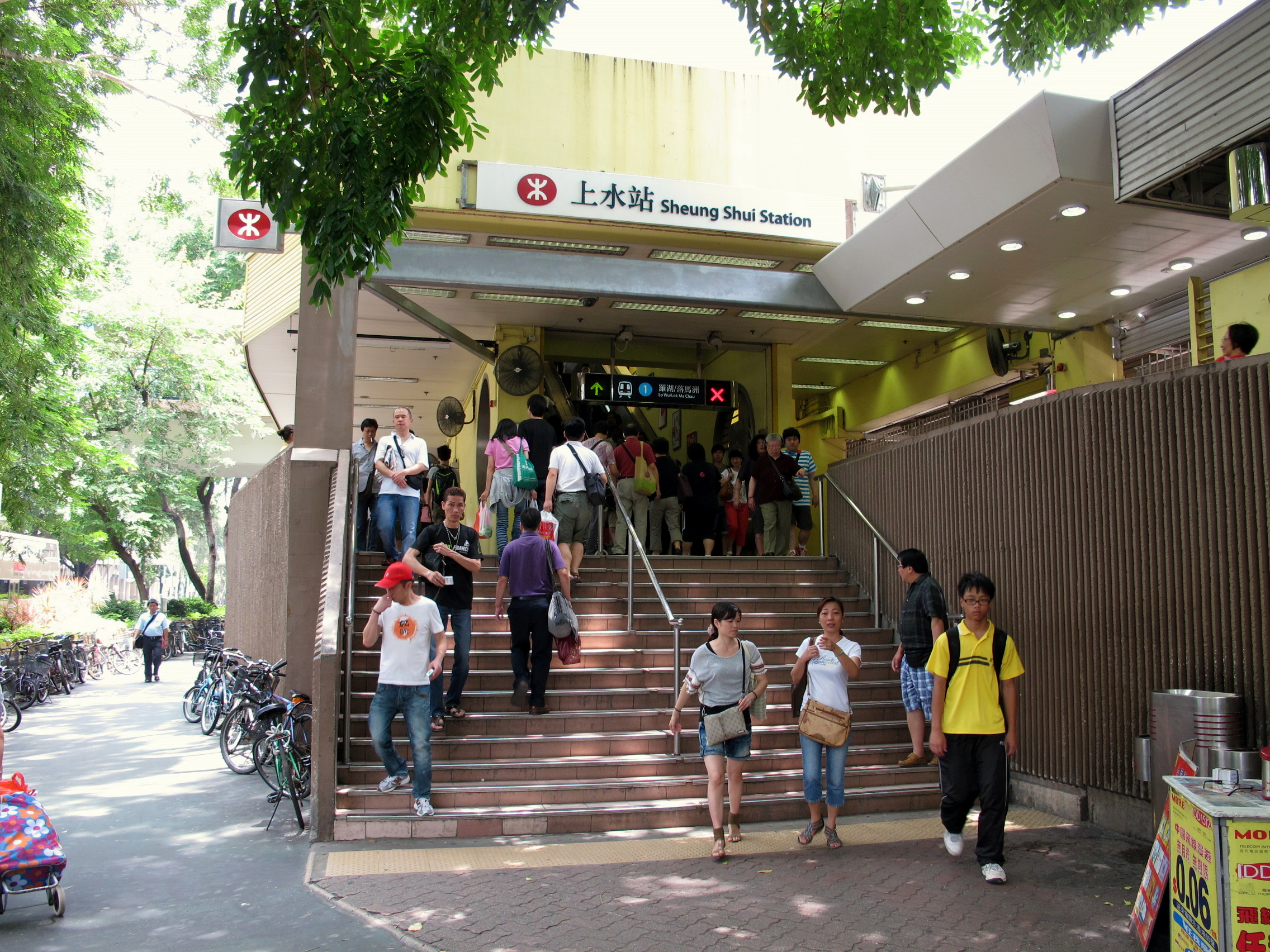 Sheung Shui Station Exit A3